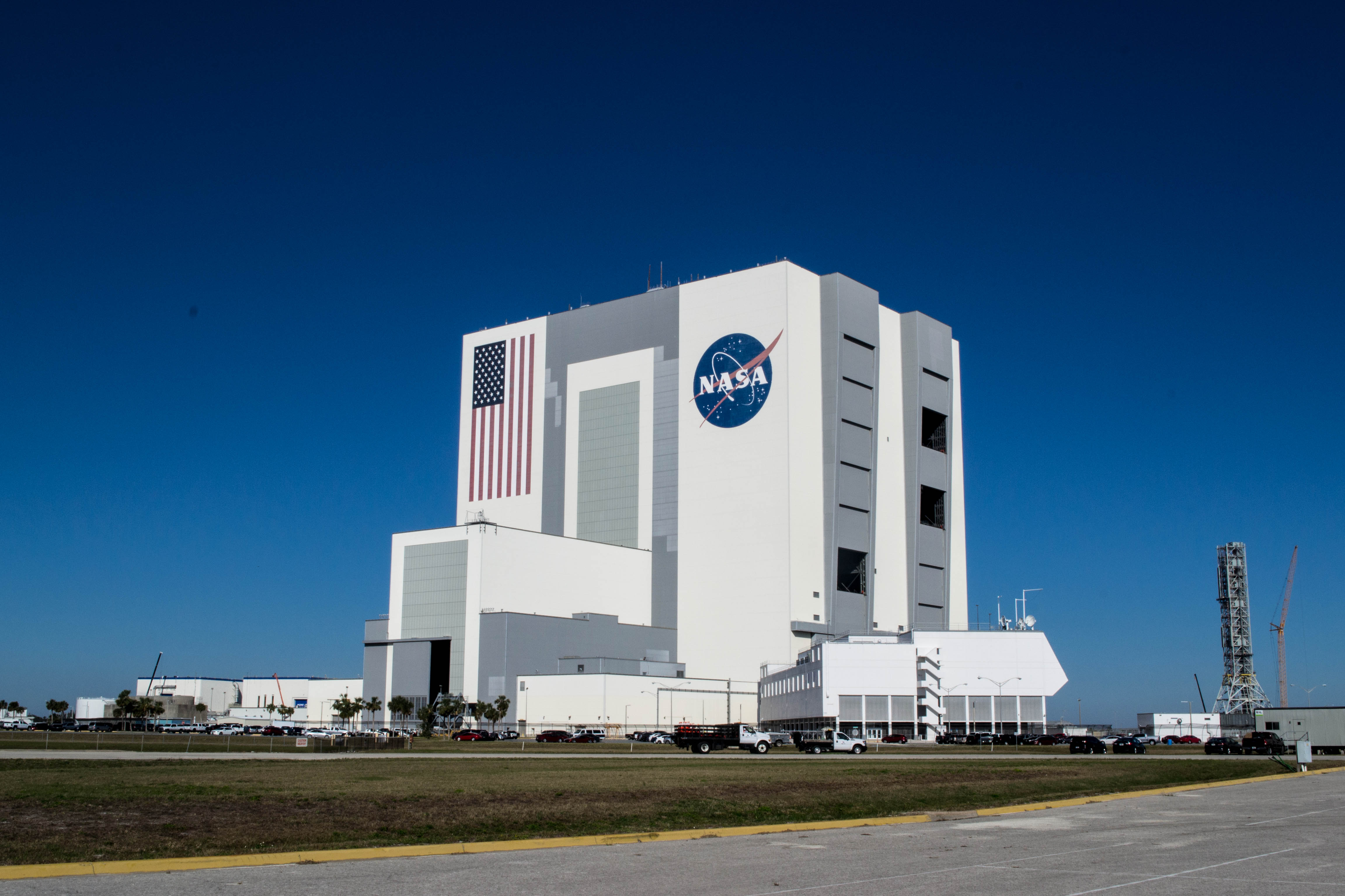 Vehicle Assembly Building at NASA Kennedy Space Center.